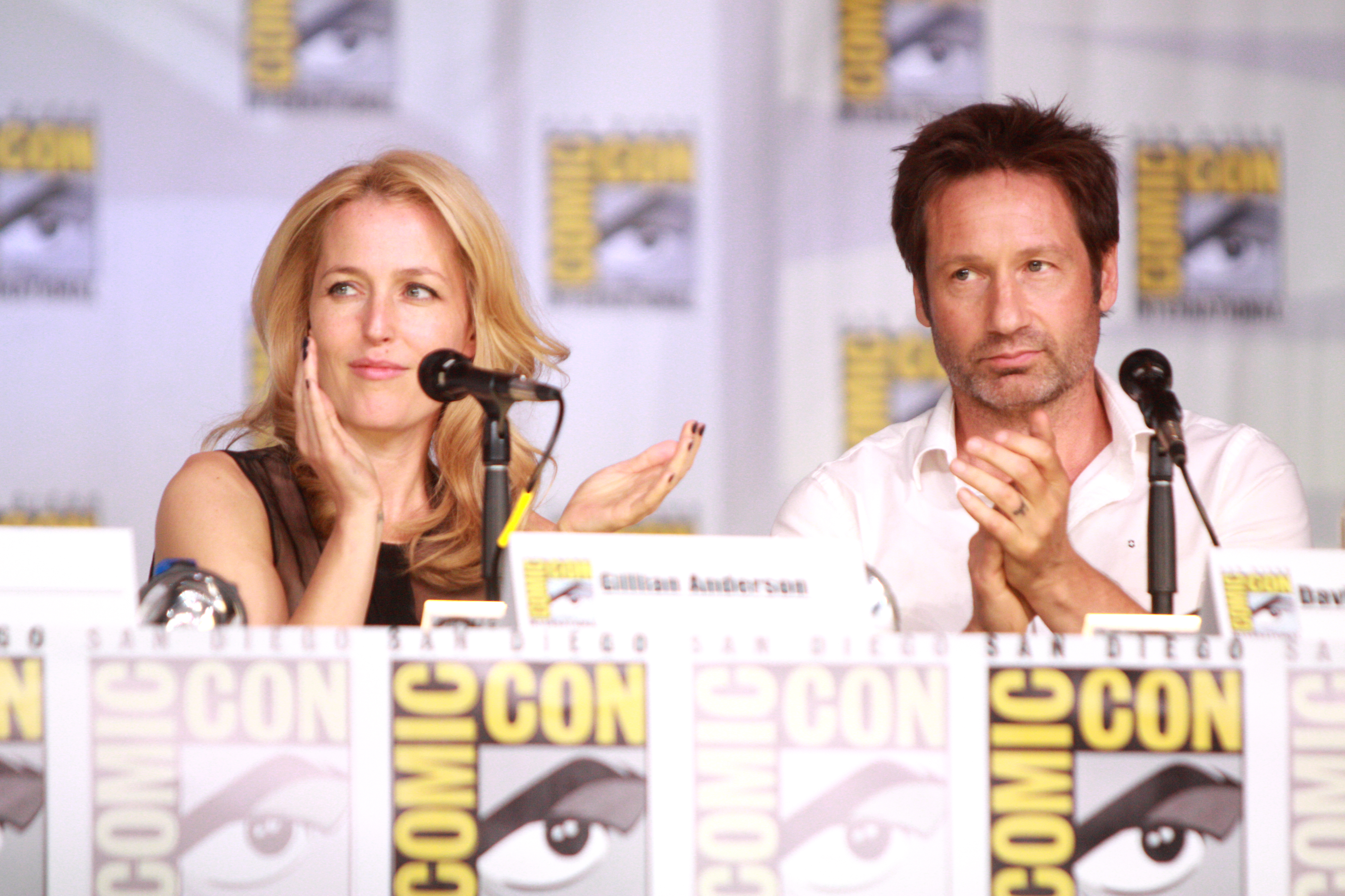 Gillian Anderson and David Duchovny speaking at the 2013 San Diego Comic Con International, for "The X-Files" 20th Anniversary panel, at the San Diego Convention Center in San Diego, California.